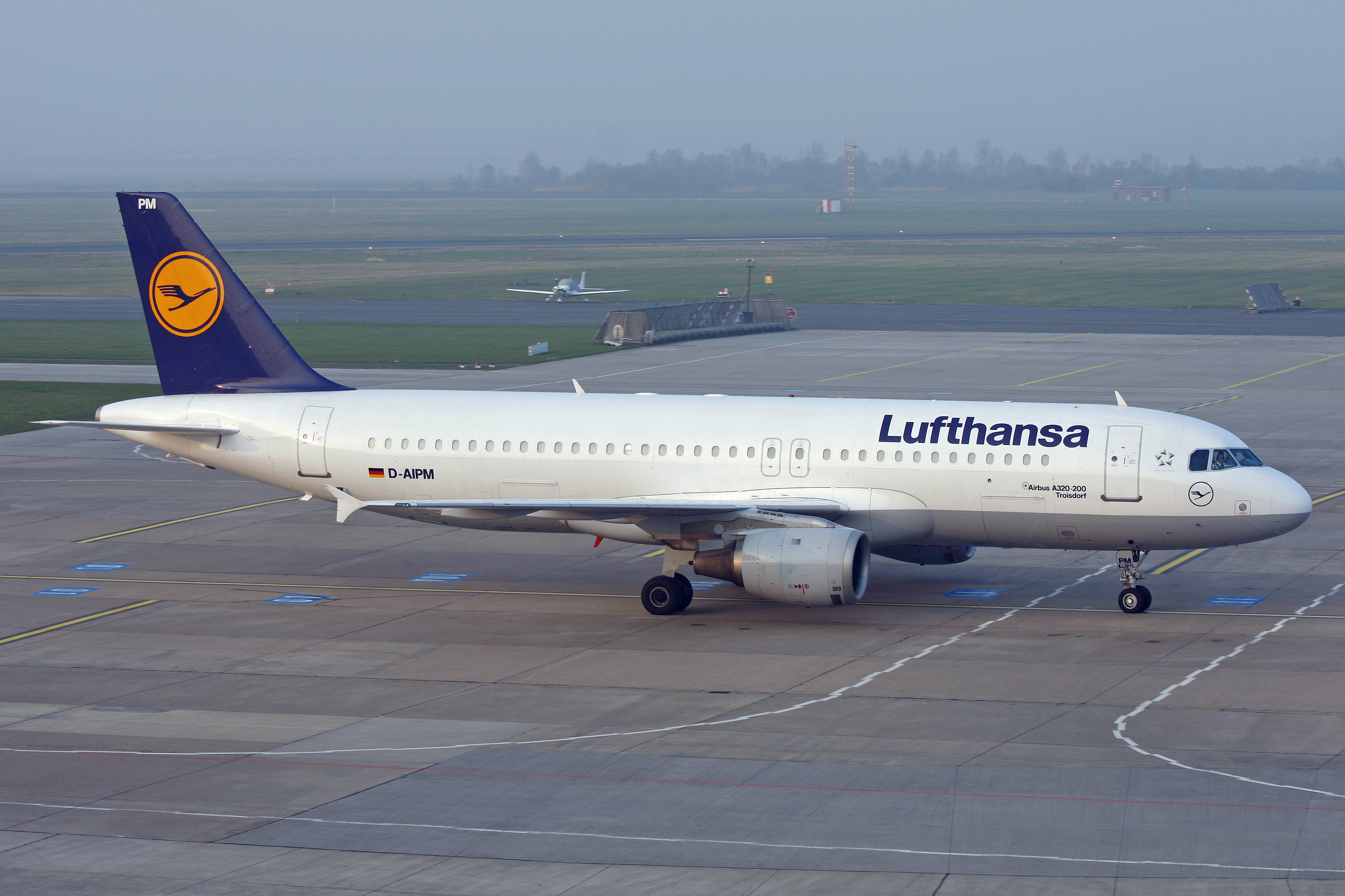 Lufthansa Airbus A320 at Bremen Airport